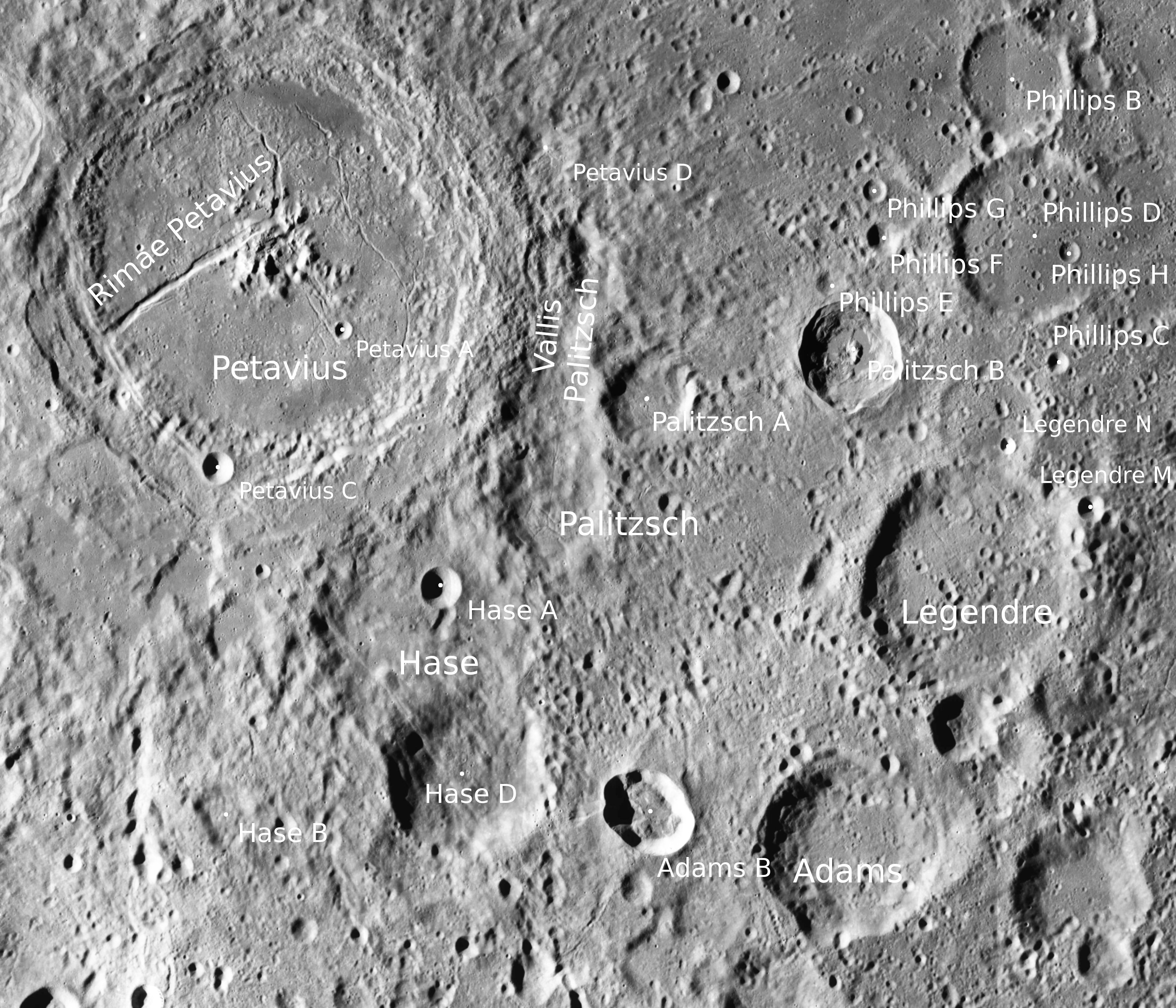 Craters Petavius, Hase, Adams and Legendre (detail of LRO - WAC global moon mosaic; Mercator projection)